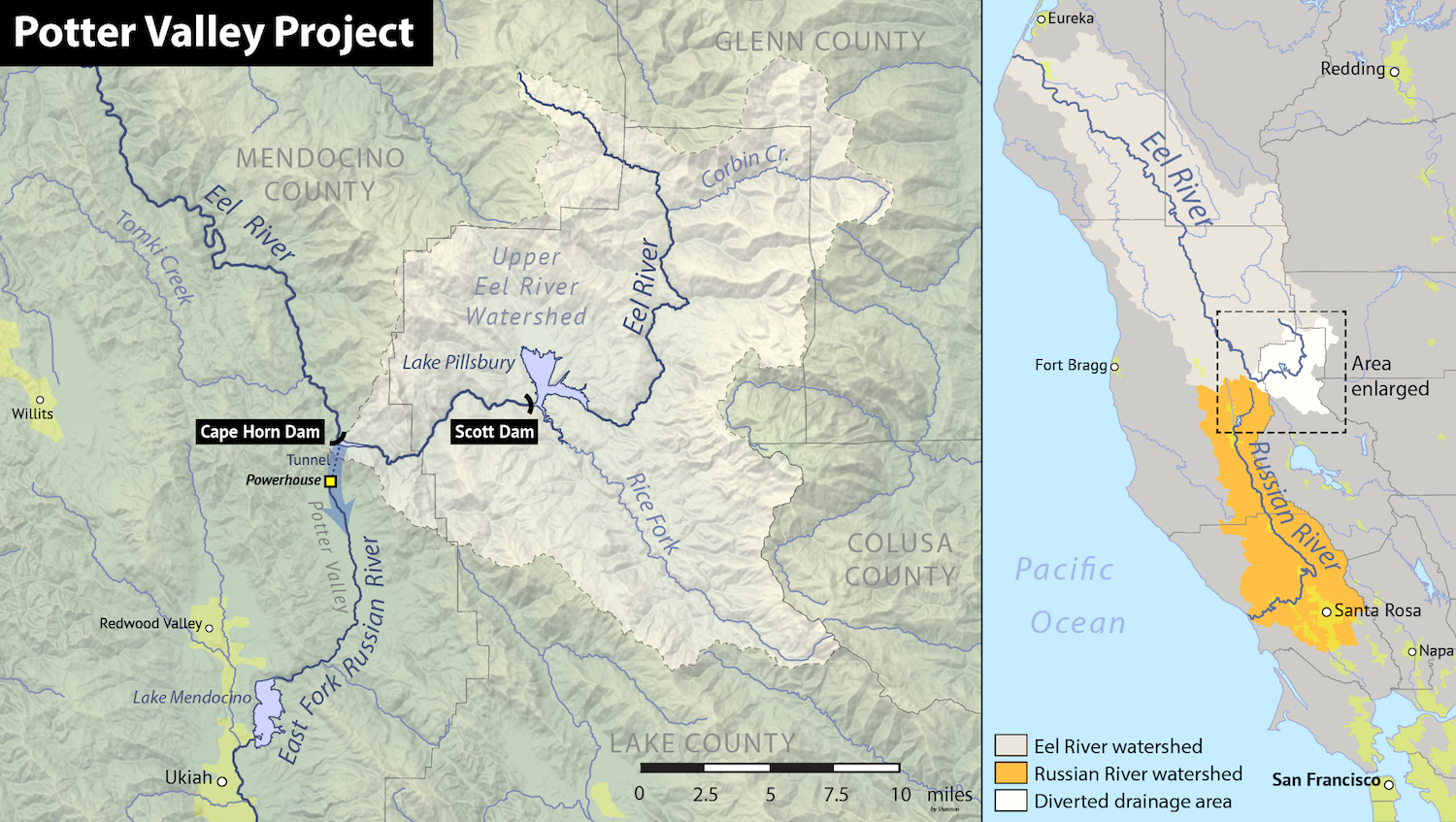 Map of the Potter Valley water Project, northern California, USA. Made using USGS National Map data.